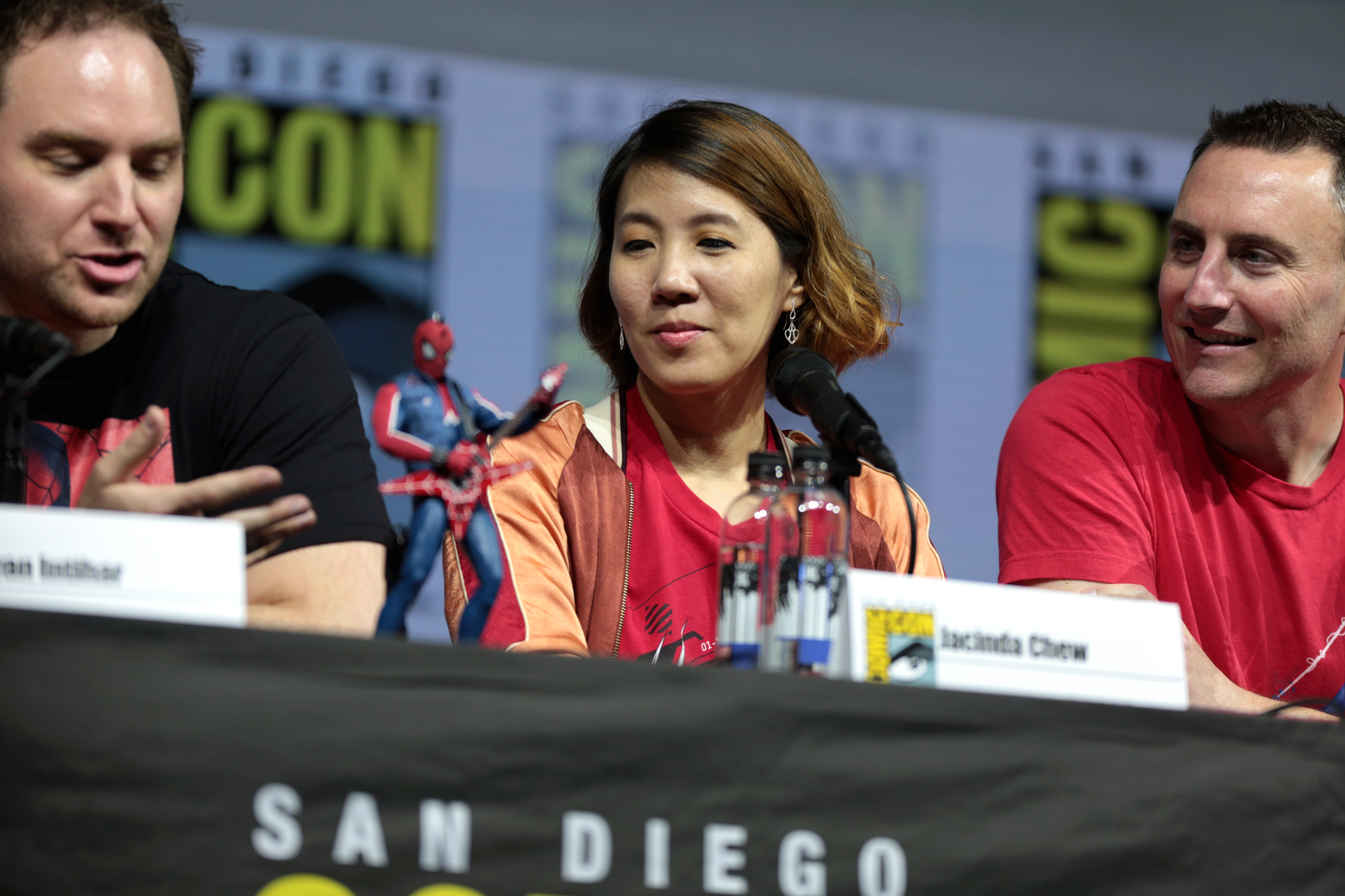 Jacinda Chew speaking at the 2018 San Diego Comic Con International, for "Marvel Games", at the San Diego Convention Center in San Diego, California.